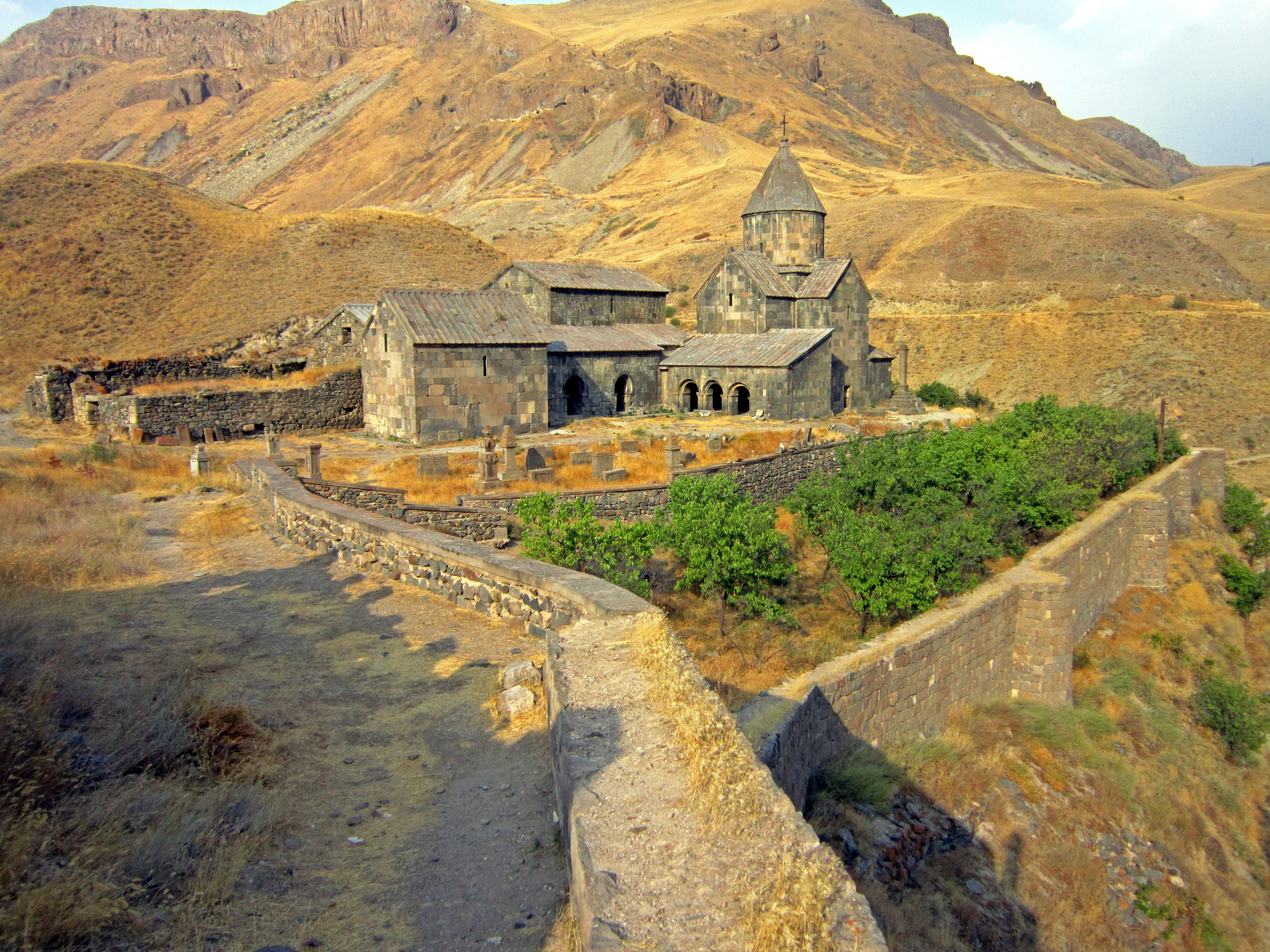 Vorotnavank